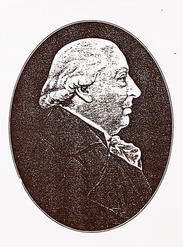 Carl Gotthard Langhans (1732 - 1808), German architect, at old age